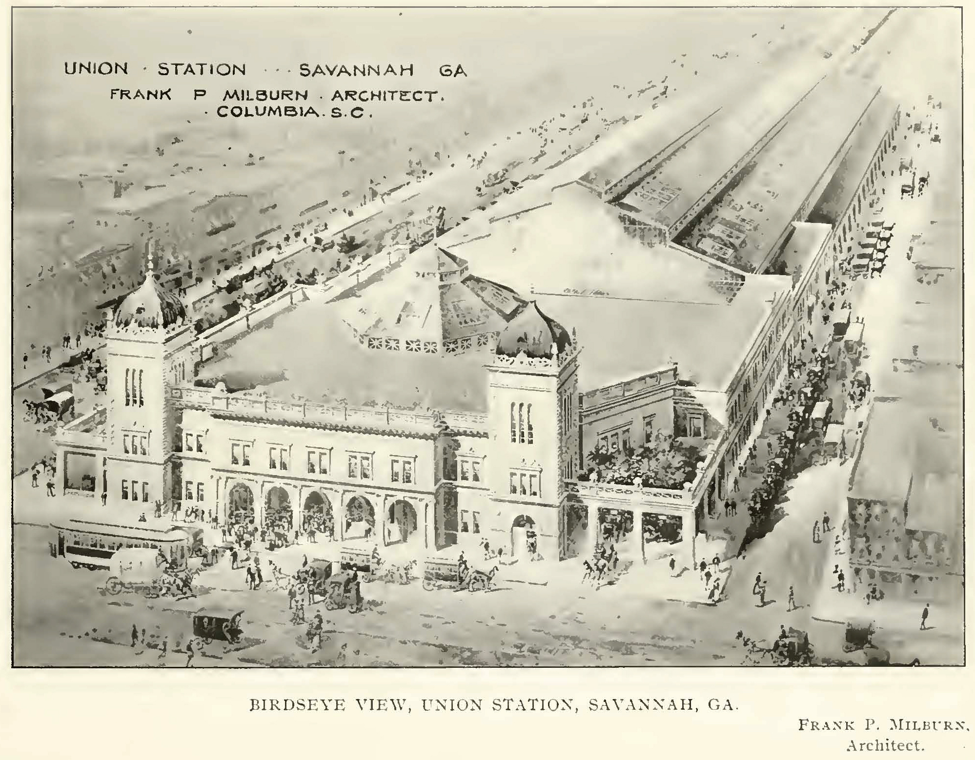 Union Station, Savannah, Georgia (demolished), by Frank P. Milburn, architect, from a self-published book of his work dated 1901